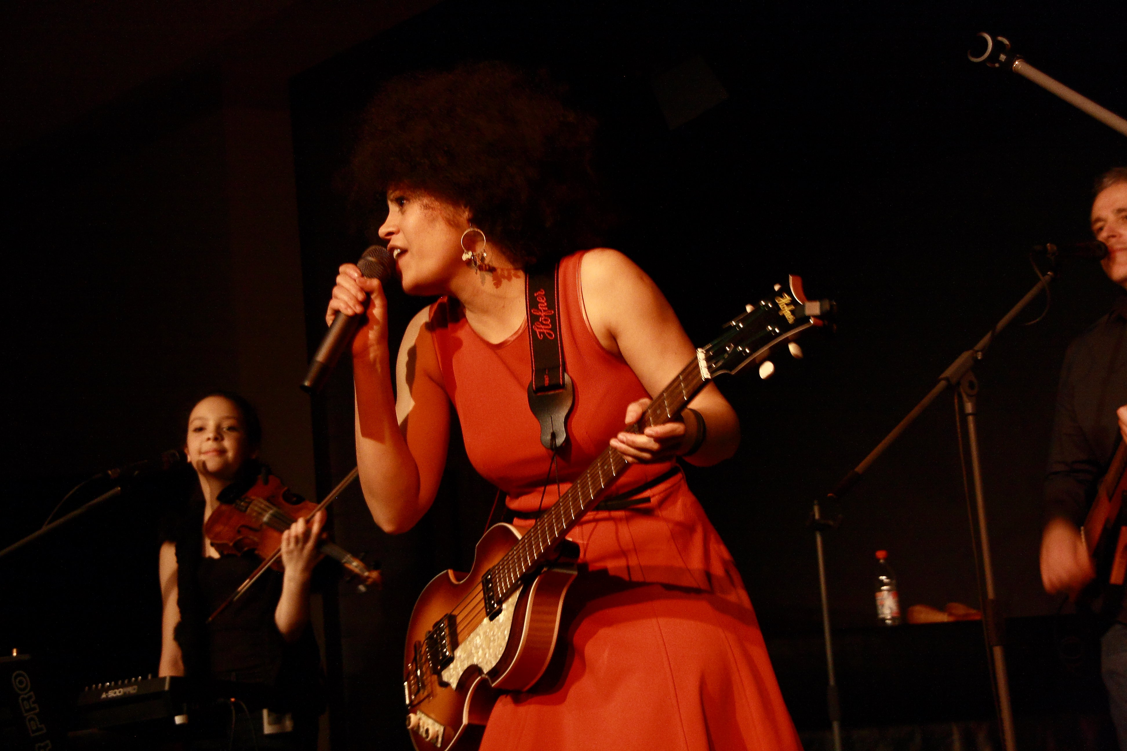 Cuban singer/songwriter Addys Mercedes with En Casa de Addys and her daughter Lia (violin) in concert at KULT, Niederstetten.